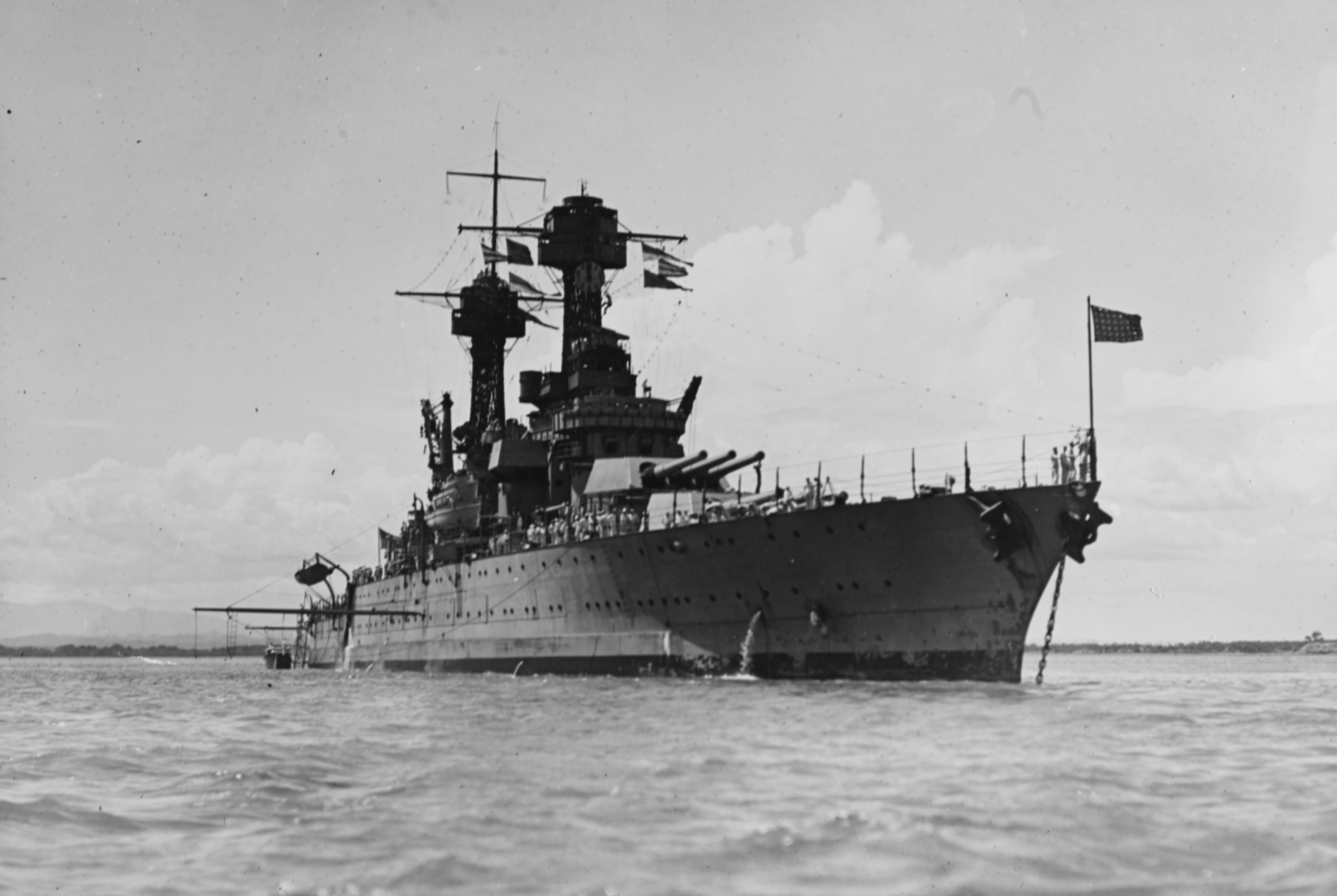 "Anchored in Guantanamo Bay, Cuba, circa February 1921. Collection of Gustave Maurer. U.S. Naval History and Heritage Command Photograph." This version cropped by uploader.